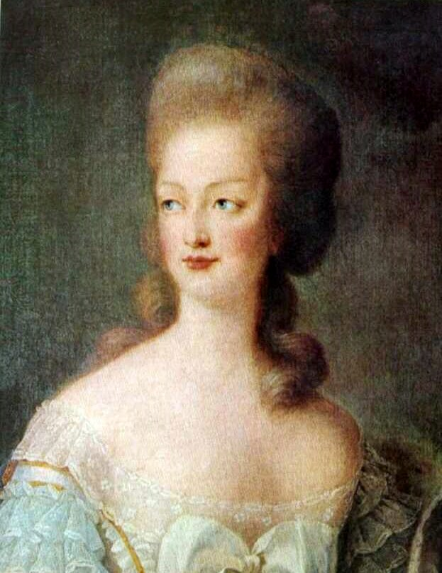 Preparatory drawing for the famous official portrait of Marie Antoinette; painted in 1778 by Élisabeth-Louise Vigée-Le Brun.